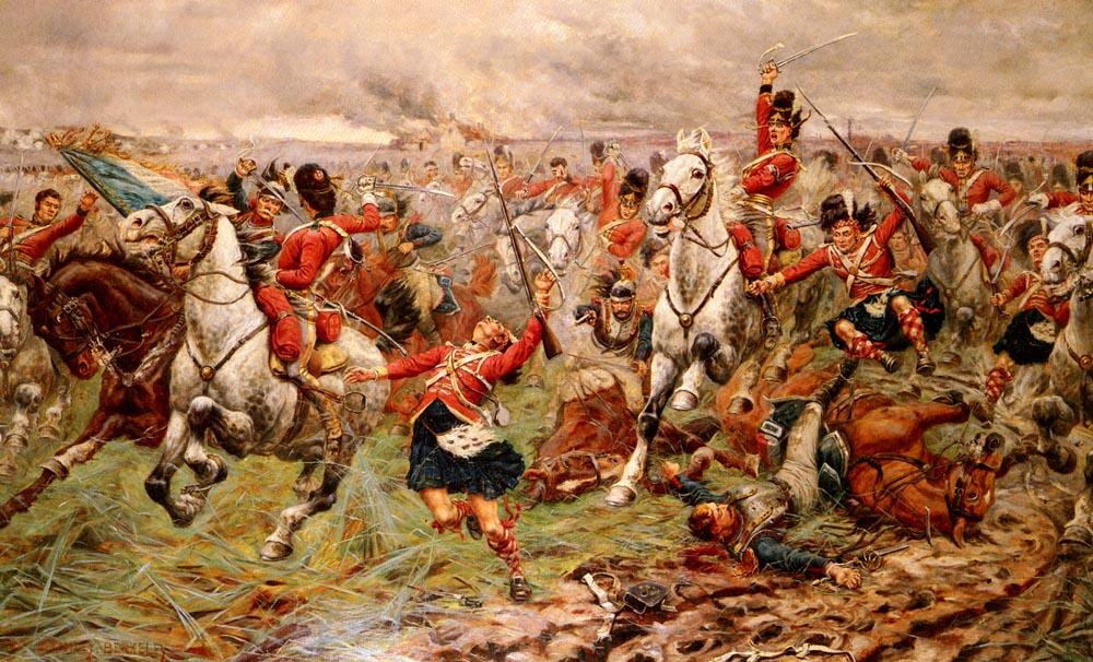 Charge of the Royal Scots Greys at battle of Waterloo